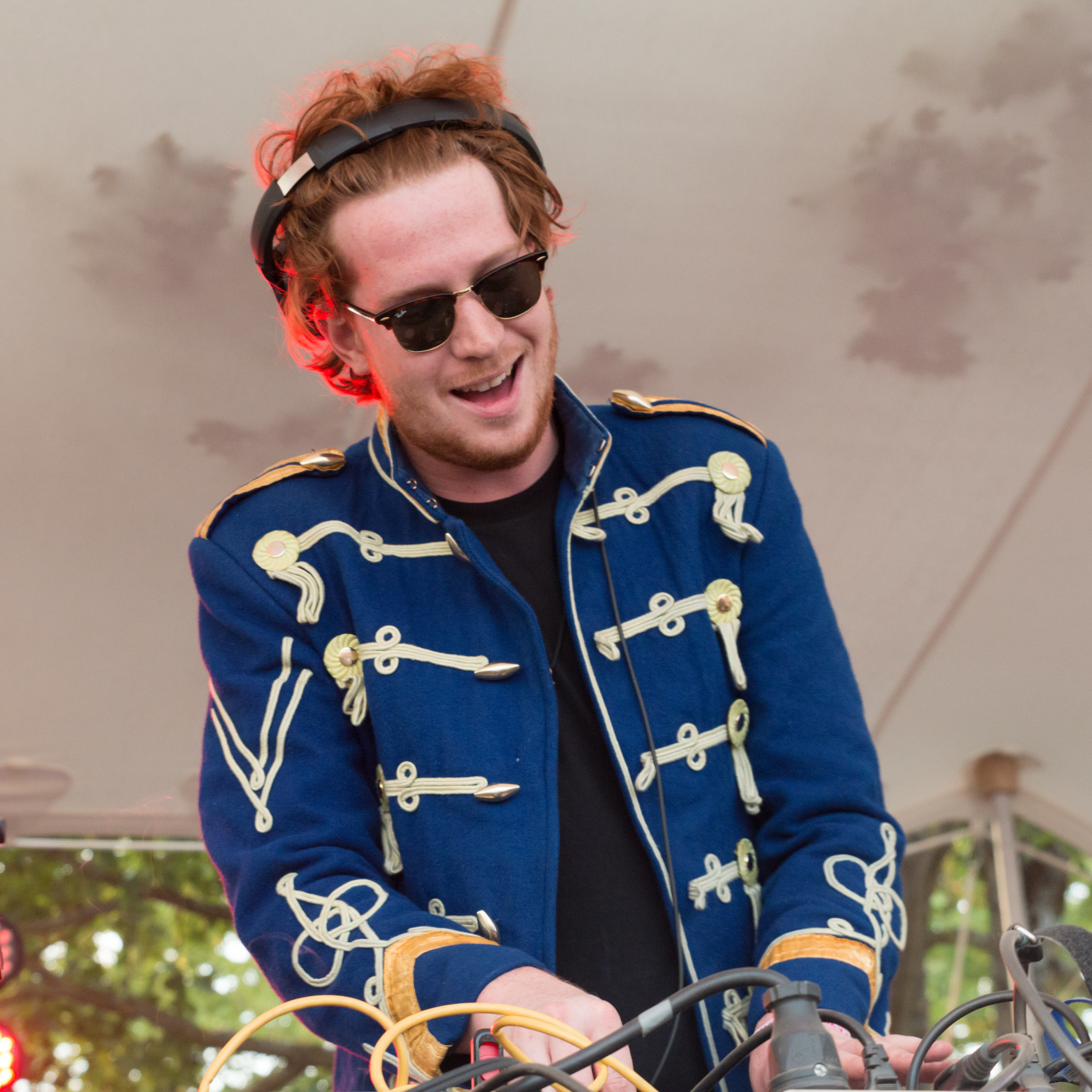 Bakermat at the Sea You Festival in Freiburg im Breisgau on July 19th, 2015.